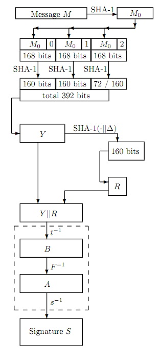 Scheme of signature generating in SFLASH algorythm